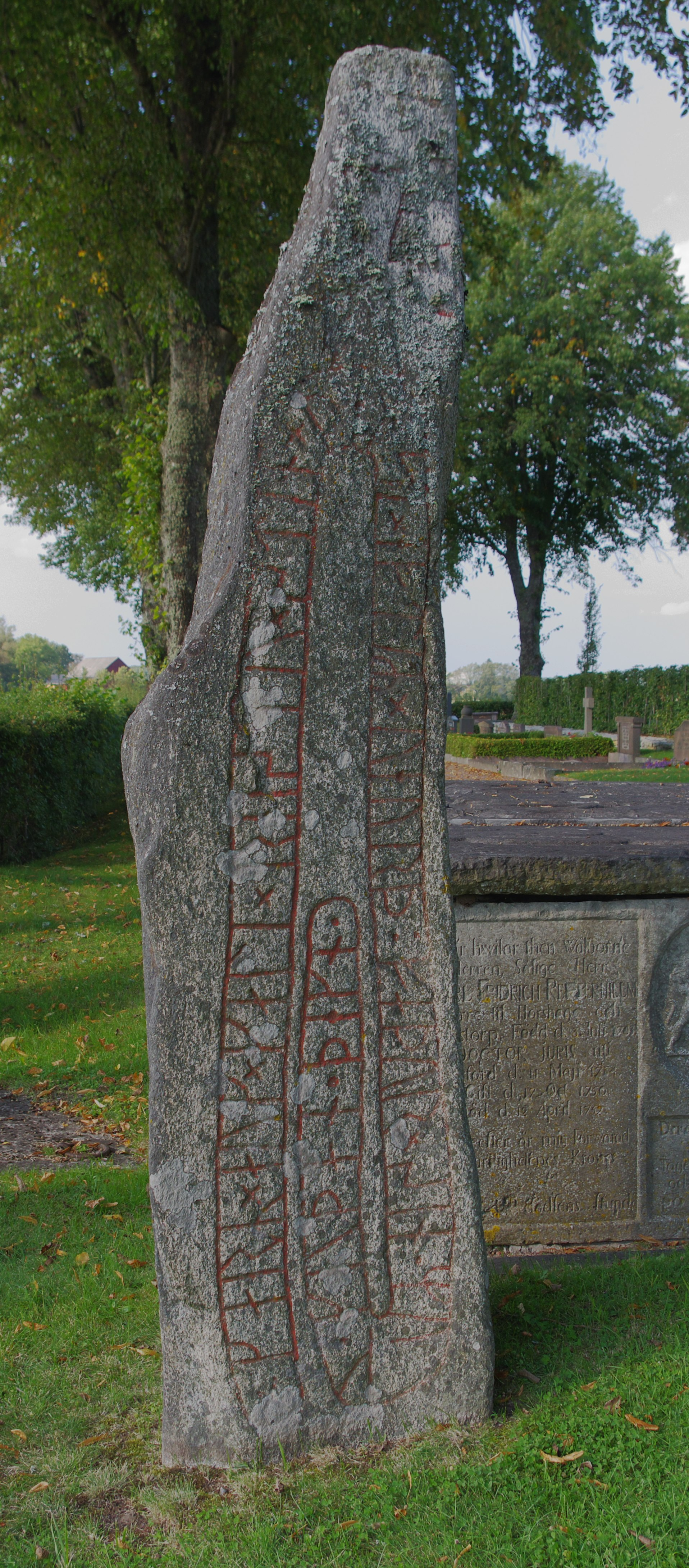 Synnerby kyrka (english:Synnerby church) and the rune stone Veurðs sten (Vg 73) in Västergötland and Skara municipality in Västragötaland county, Sweden.